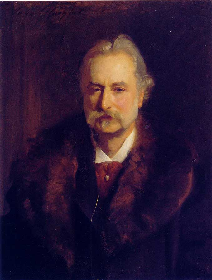 Portrait of Sir George Lewis John Singer Sargent -- American painter 1896 Private collection Oil 31.5 x 23.5 in. Jpg